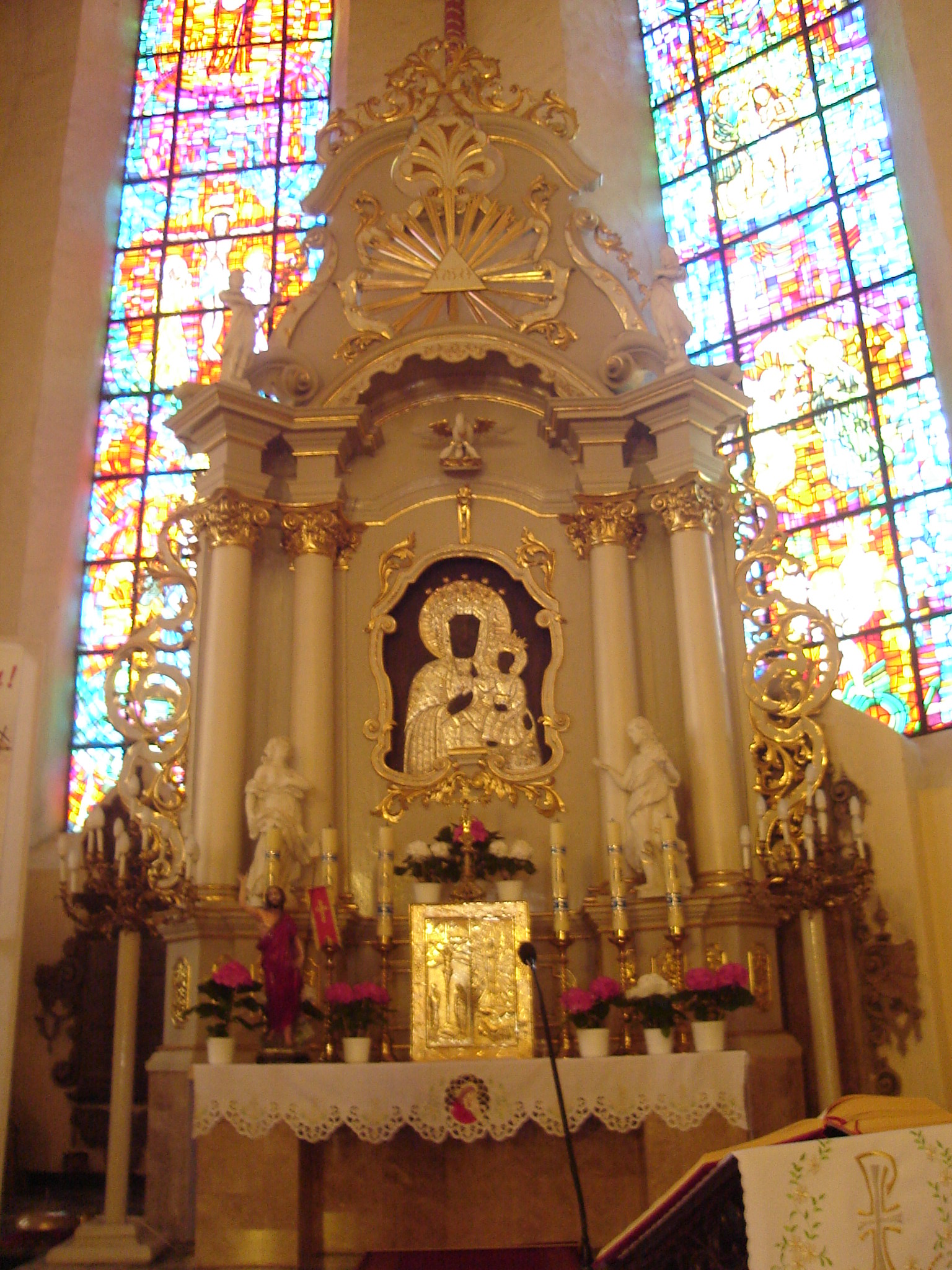 The main altar of church of Madonna from Częstochowa in Lubin (Poland).